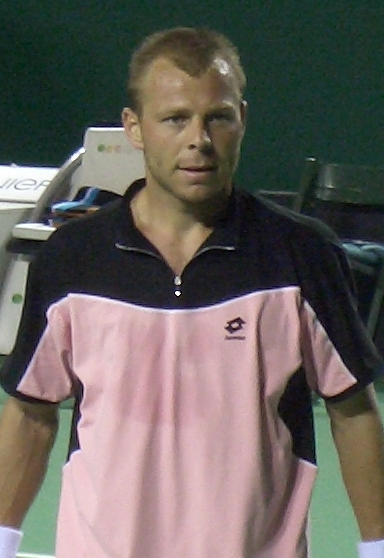 Tomas Zib (Tomáš Zíb) at the 2006 Australian Open.